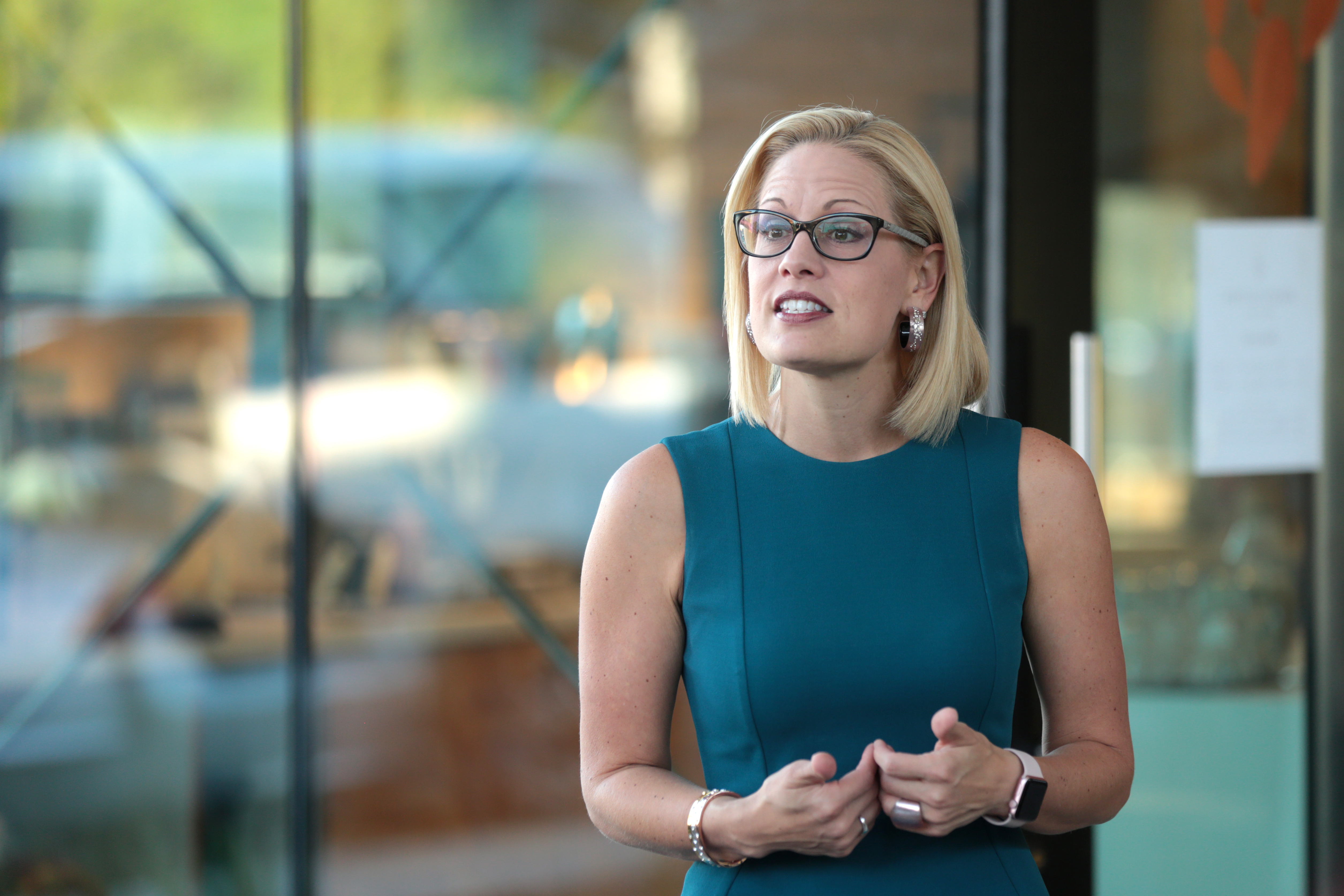 U.S. Congresswoman Kyrsten Sinema speaking with supporters at a neighborhood canvas hosted by the Arizona Education Association at Provision Coffee Arcadia in Phoenix, Arizona.